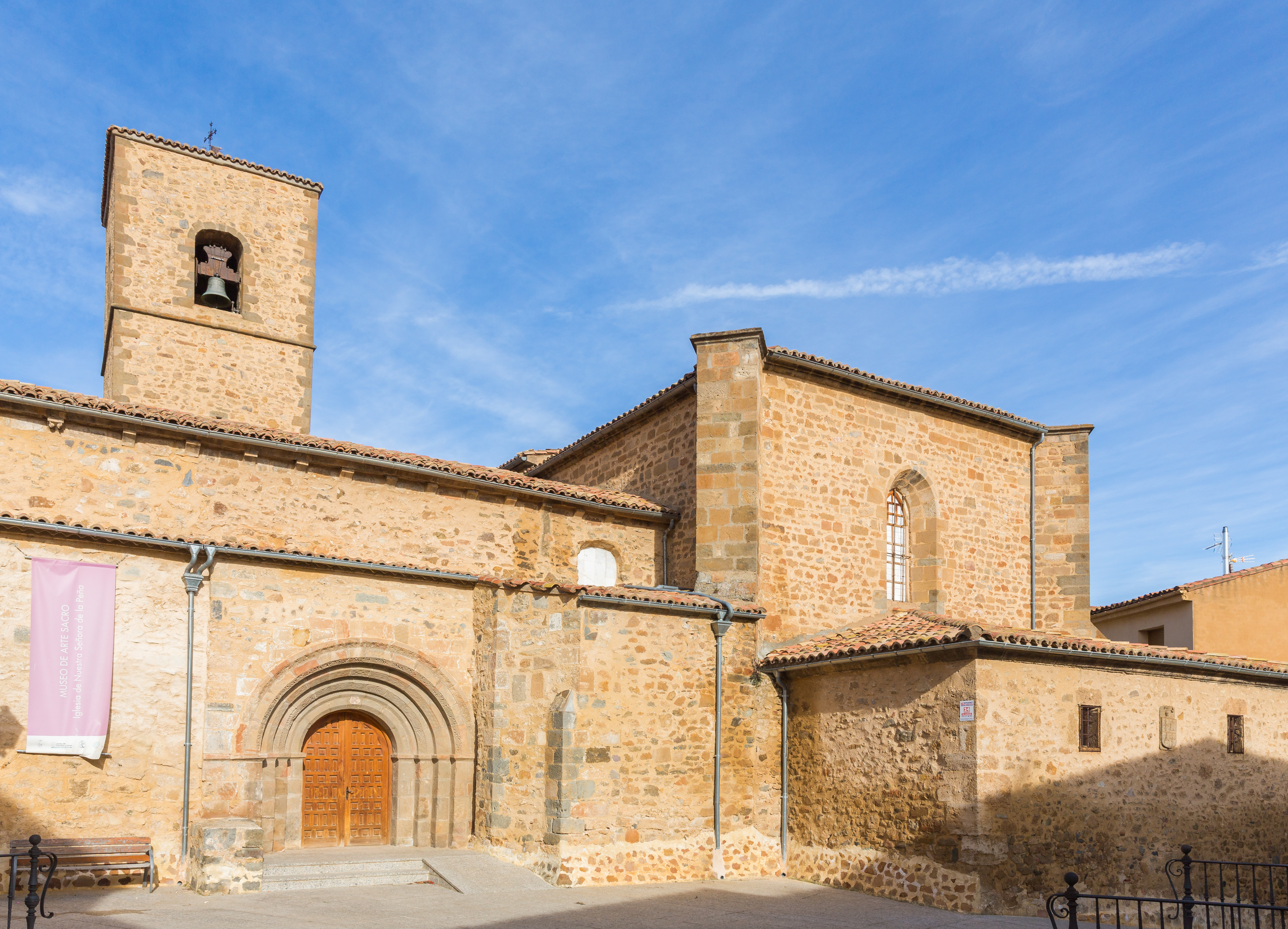 Church of the Rock, Ágreda, Soria, Spain